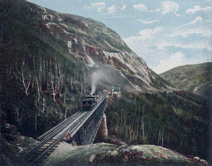 The Willey Brook Bridge, White Mountains, New Hampshire -- a Mountain Division (MCRR) train approaching Crawford Notch crosses the span, 400 feet (122 meters) long and 94 feet (29 meters) high, between Mount Willey and Mount Willard.